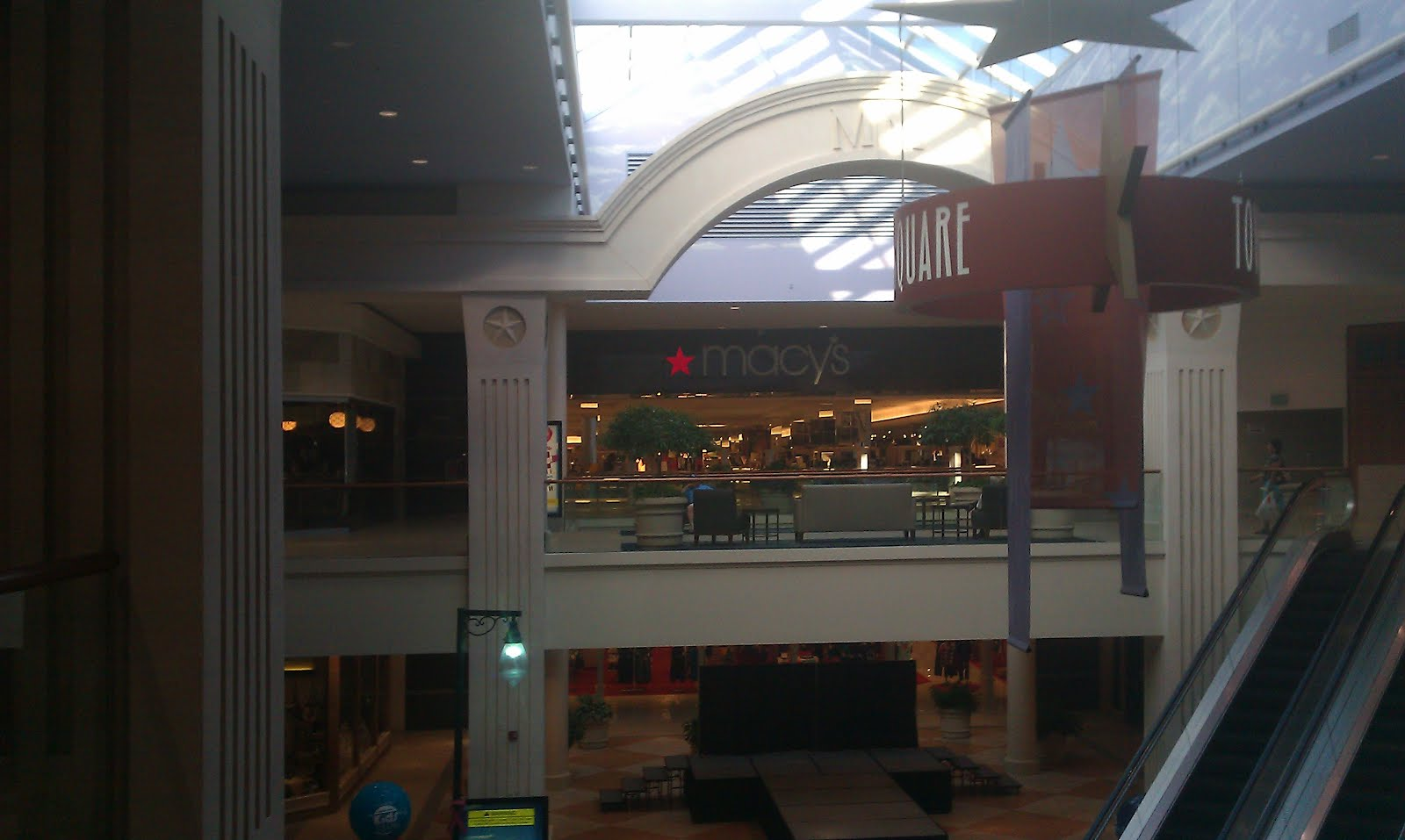 This photo was taken in Fort Worth, Texas.